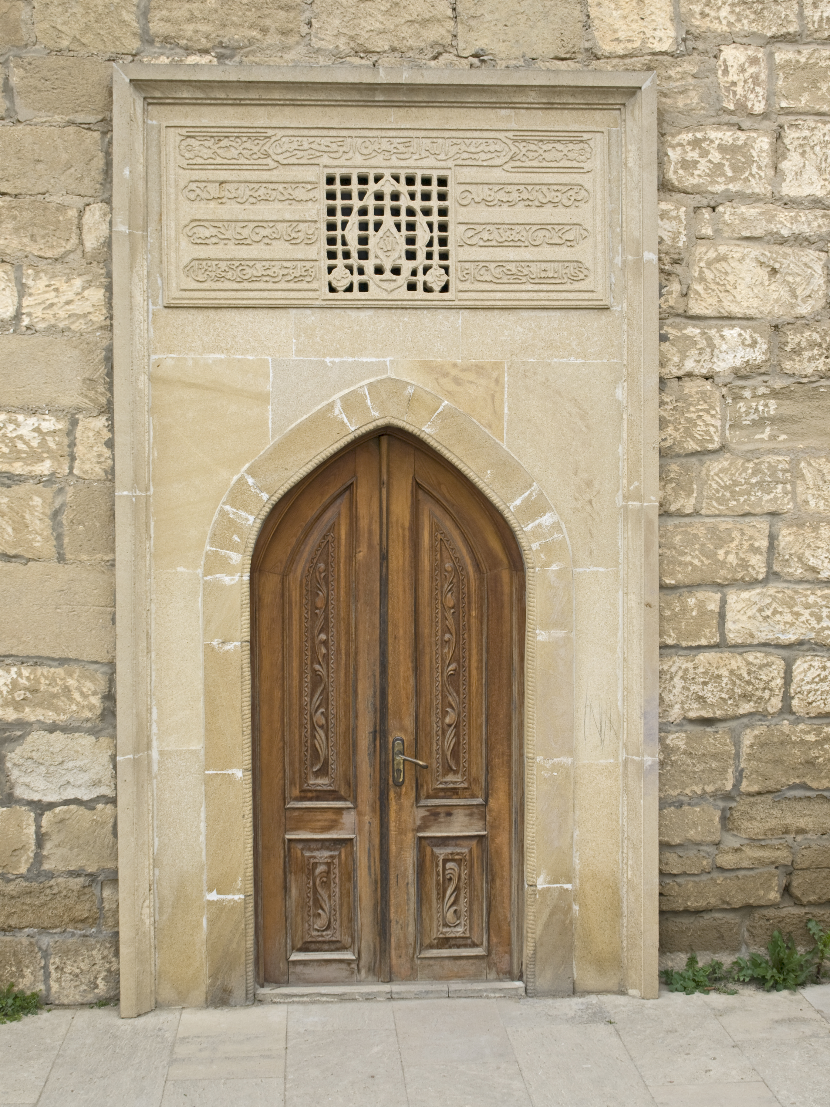 Entrance to Juma Mosque, Qala, Baku, Azerbaijan